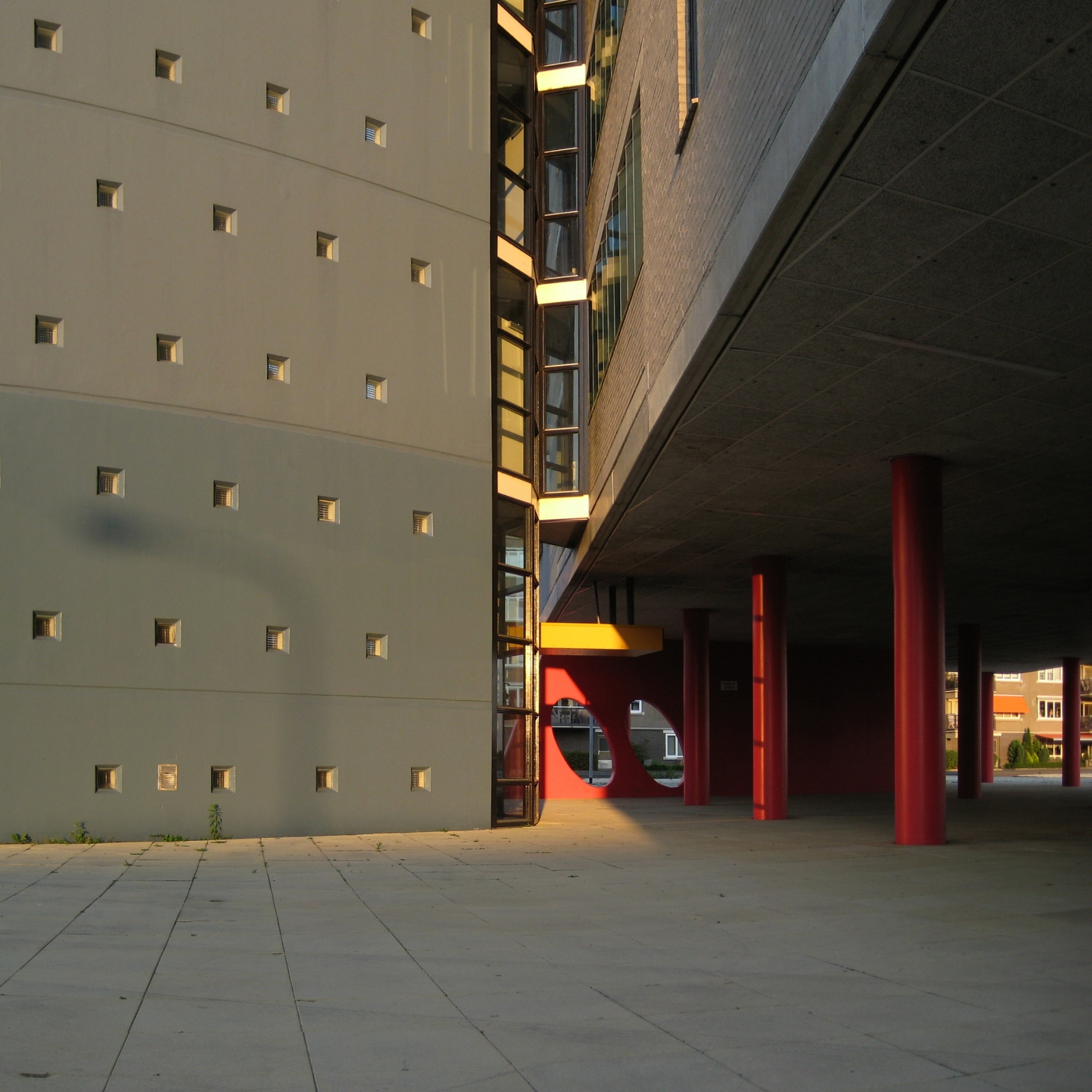 Building at the Allendeplein in the Dutch city of Groningen.